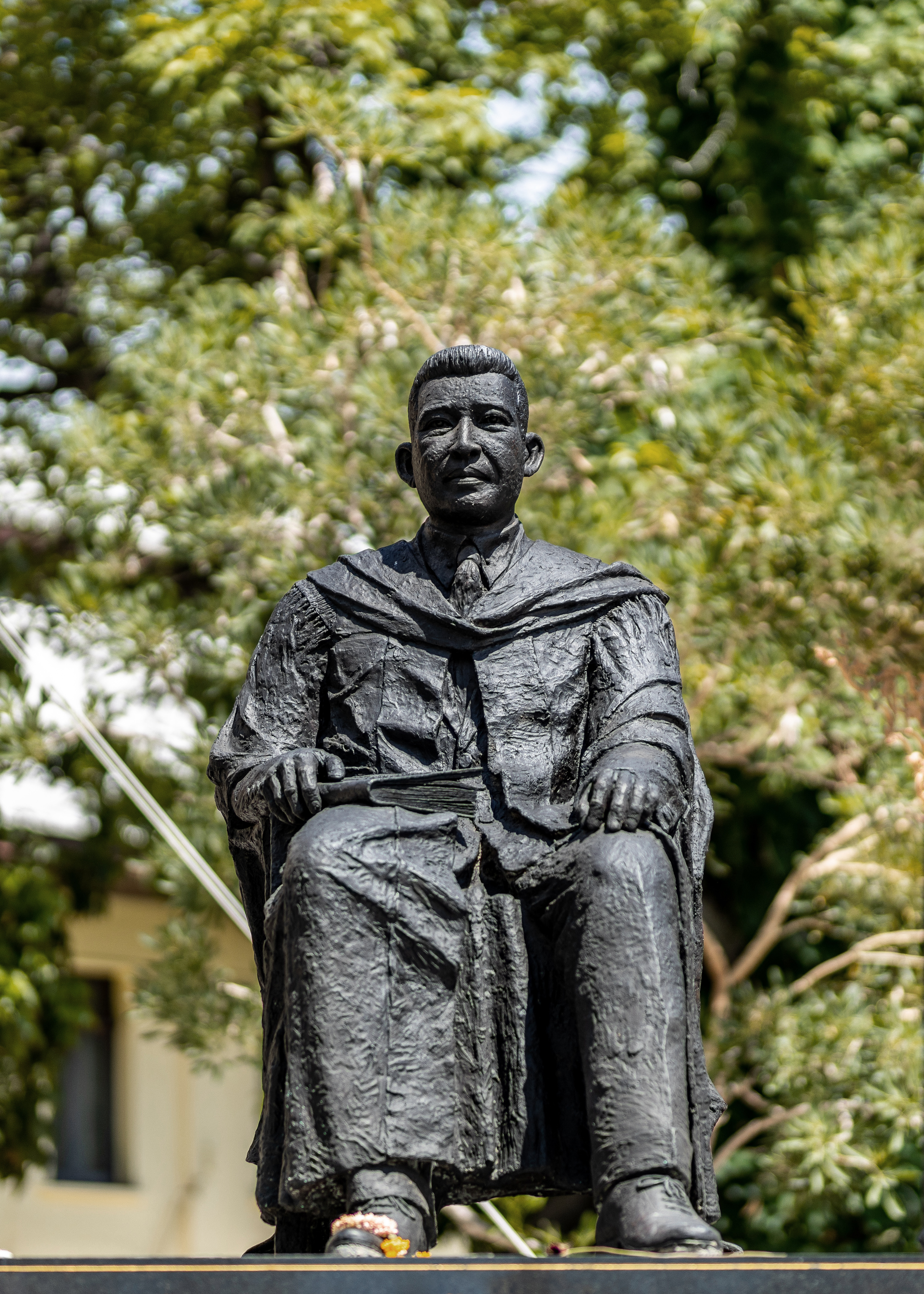 Statues of Pridi Banomyong, Thammasat University, Bangkok.